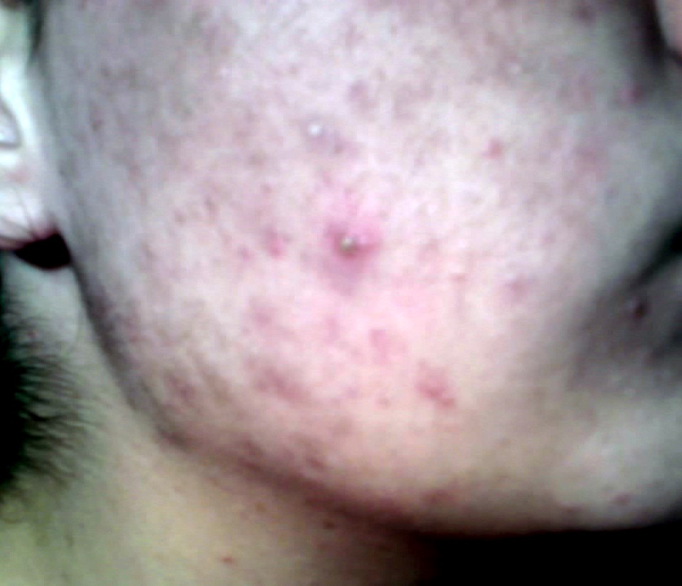 A 16 years old teenager with acne on his cheek - photo taken with flash